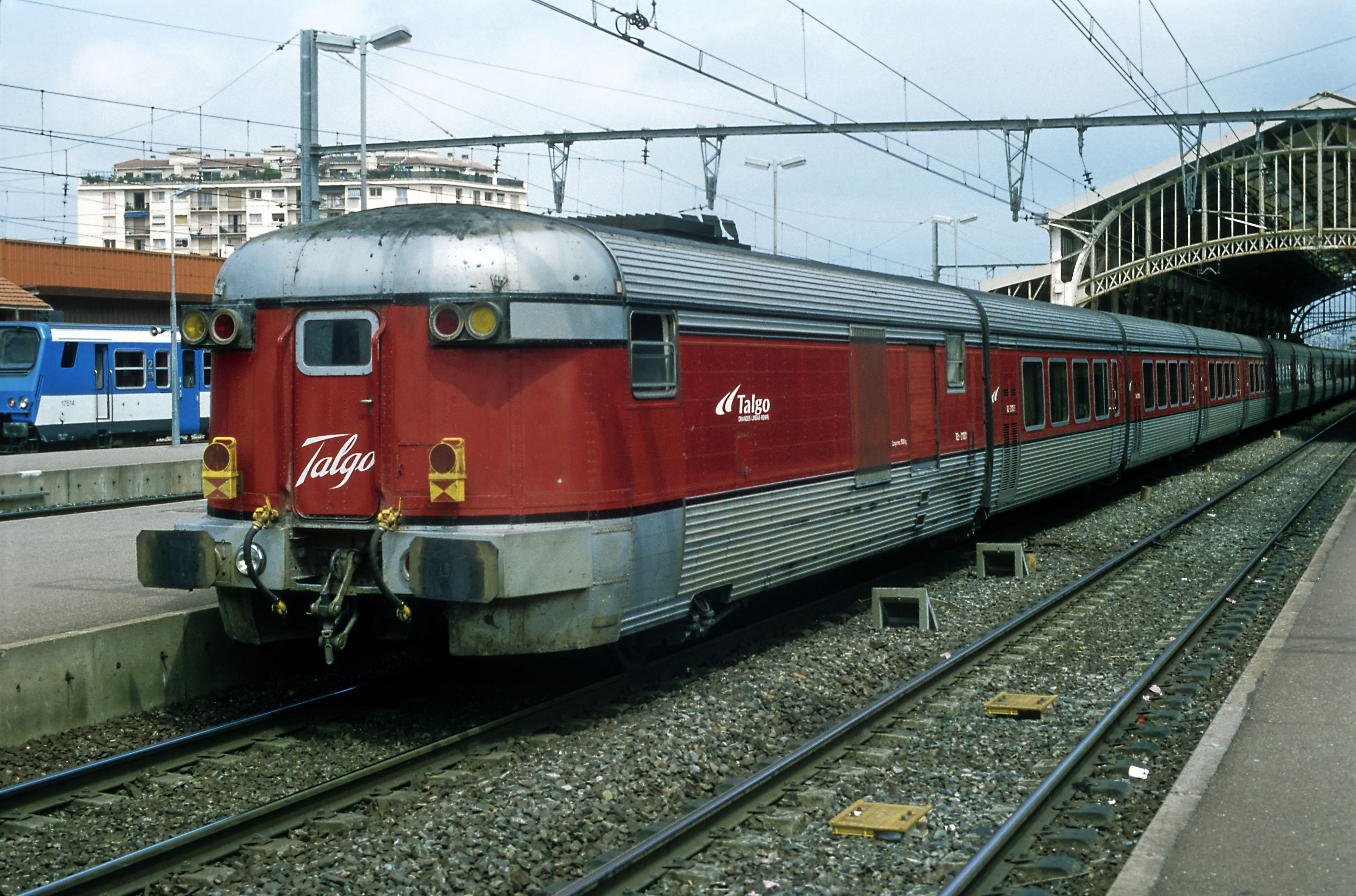 The EuroCity train Catalan Talgo at Perpignan railway station in 2003. See also: Catalán Talgo.